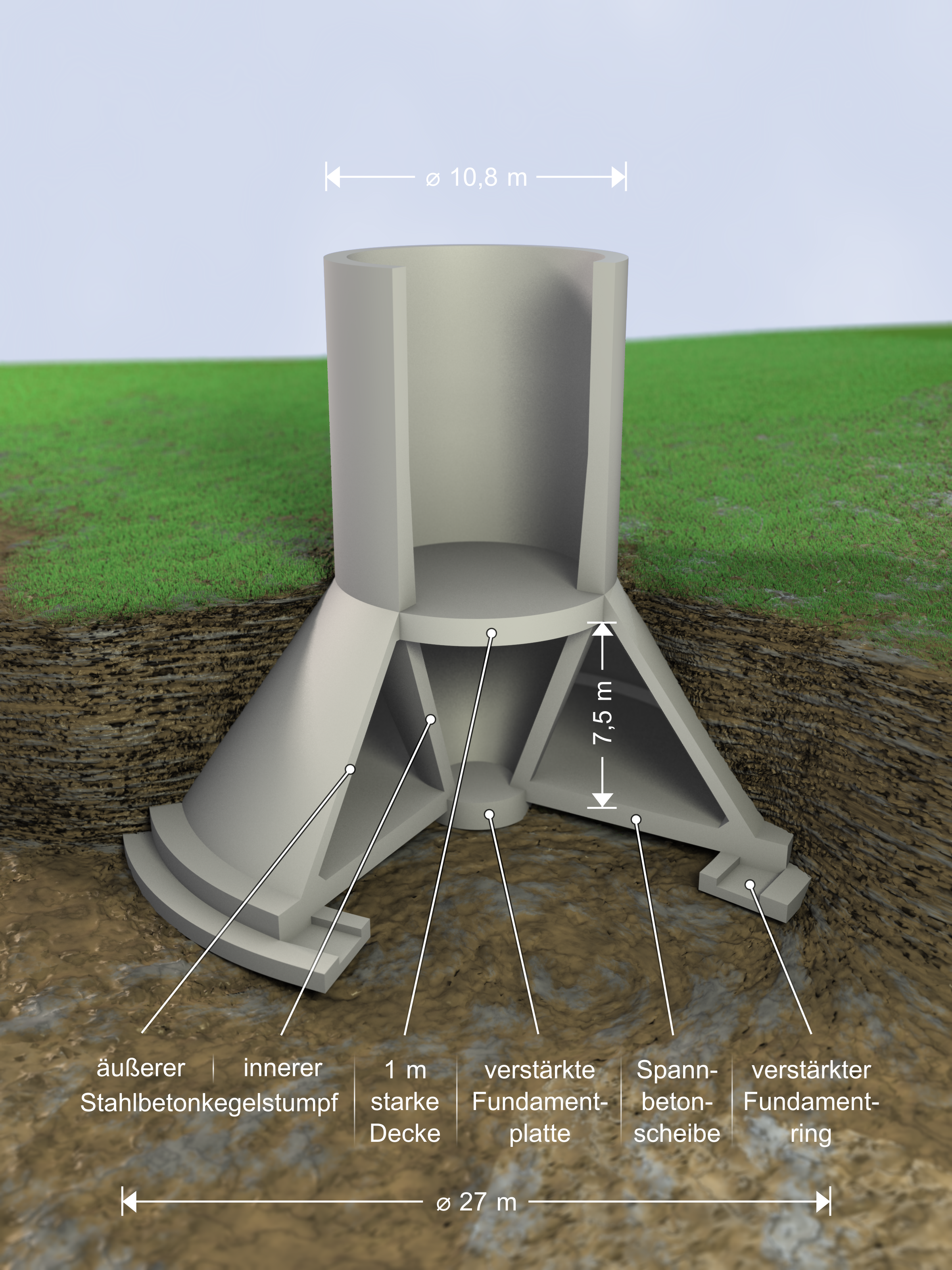 Diagram showing Foundation of the Television Tower in Stuttgart (Fernsehturm Stuttgart), weight of foundation: approximate: 1500 t